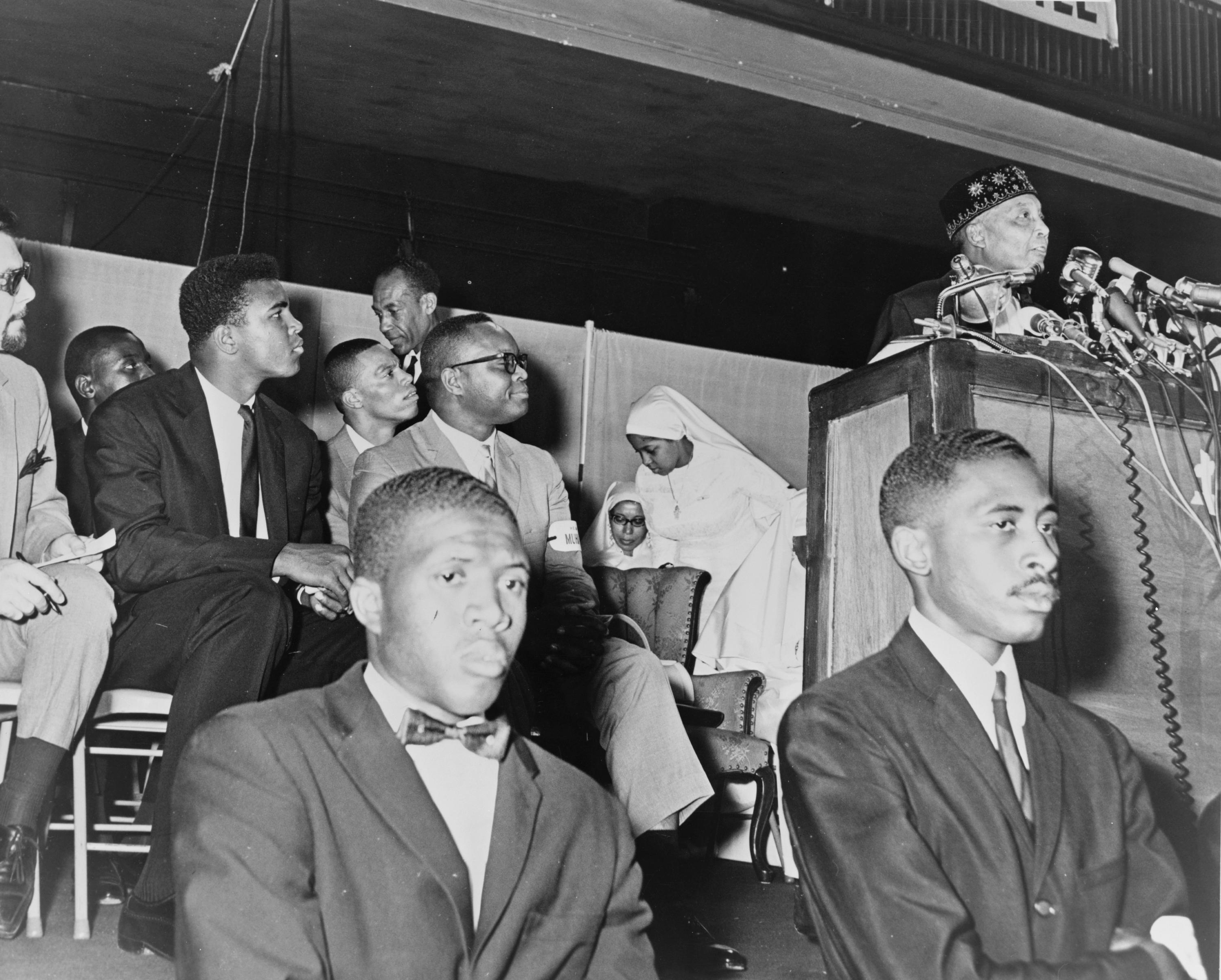 Elijah Muhammad addresses followers including Muhammad Ali / World Telegram & Sun photo by Stanley Wolfson.